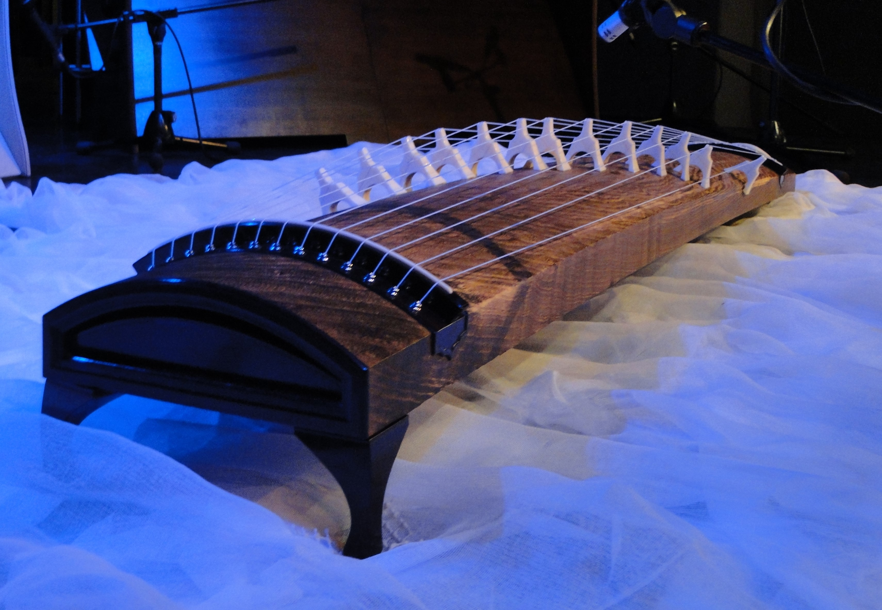 Japanese 13-stringed koto (right in front)